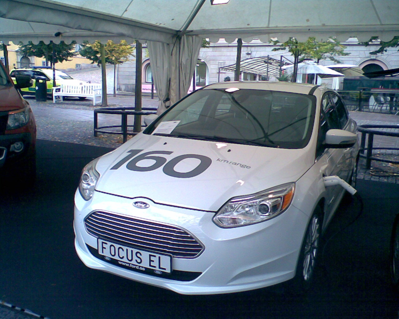 Ford Focus Electric at the 2012 Stockholm Car Festival